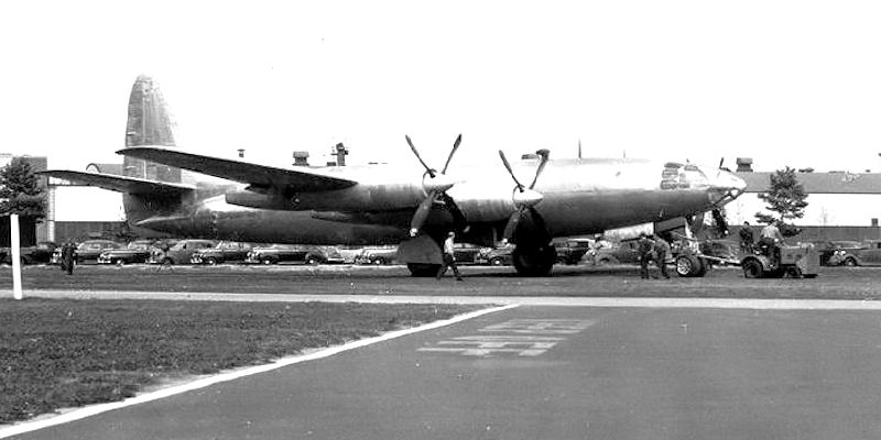 Republic XR-12A-RE Rainbow - 44-91002 Eglin AFB Florida